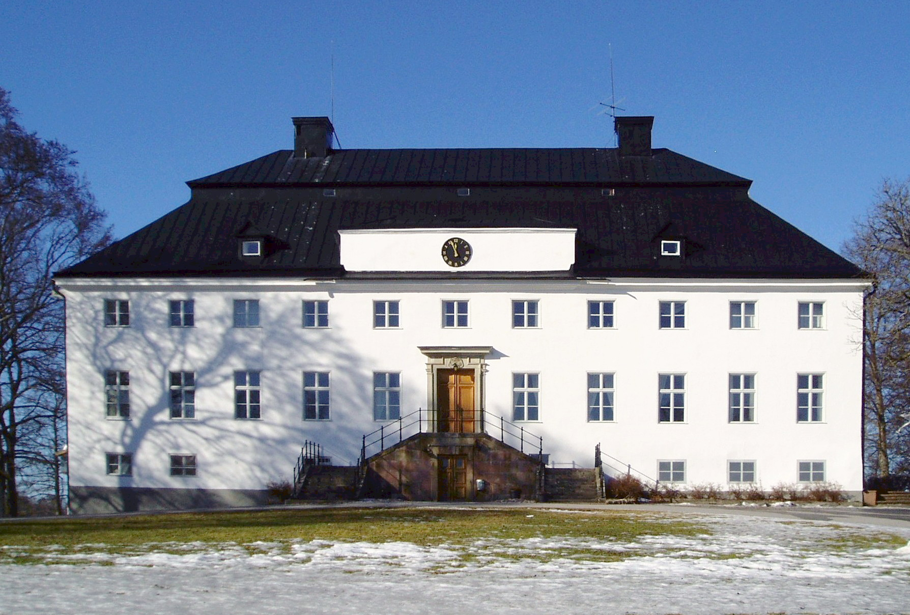 Ekebyholm Castle, main building, Rimbo, Sweden